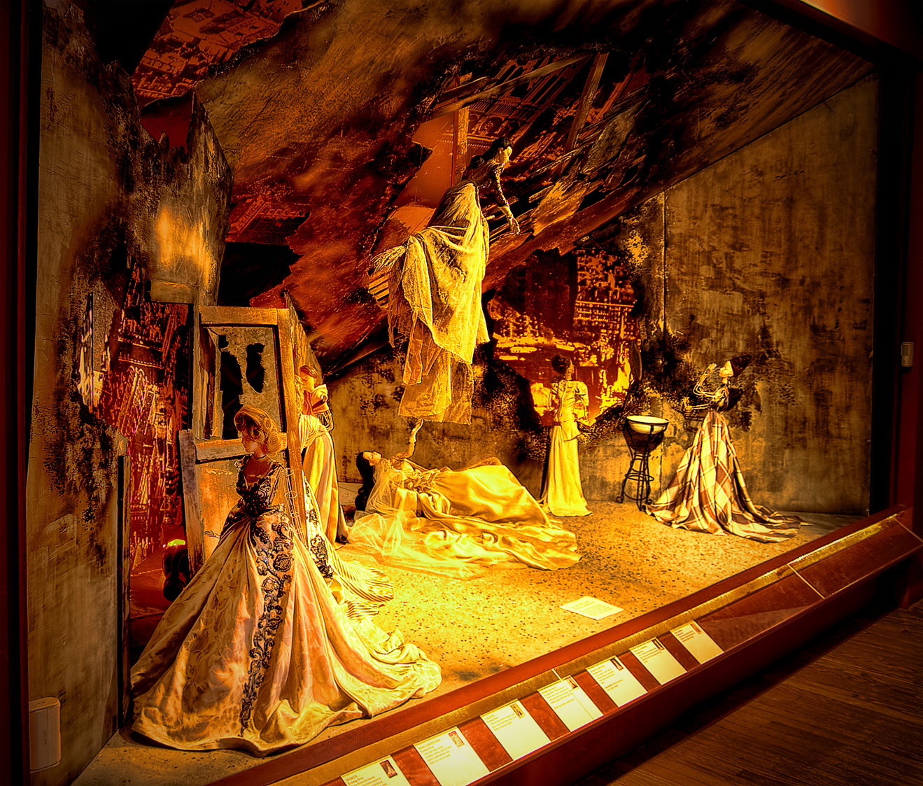 Jean Cocteau Hommage à René Clair: Ma Femme est une Sorcière Tribute to René Clair: I Married a Witch A set created for the Théâtre de la Mode in 1945